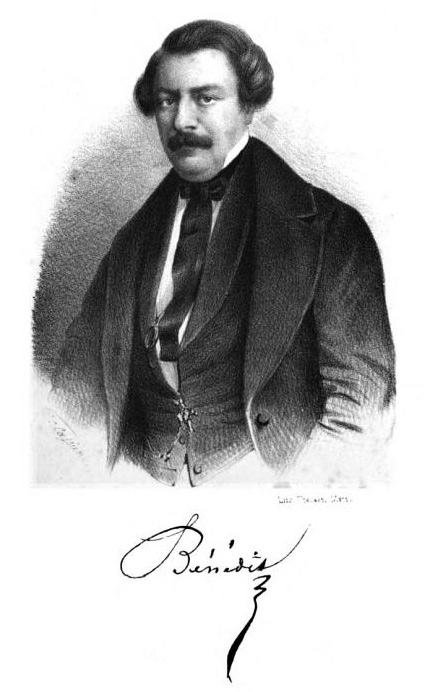 Occitan poet Gustave Bénédit (1802—1870)